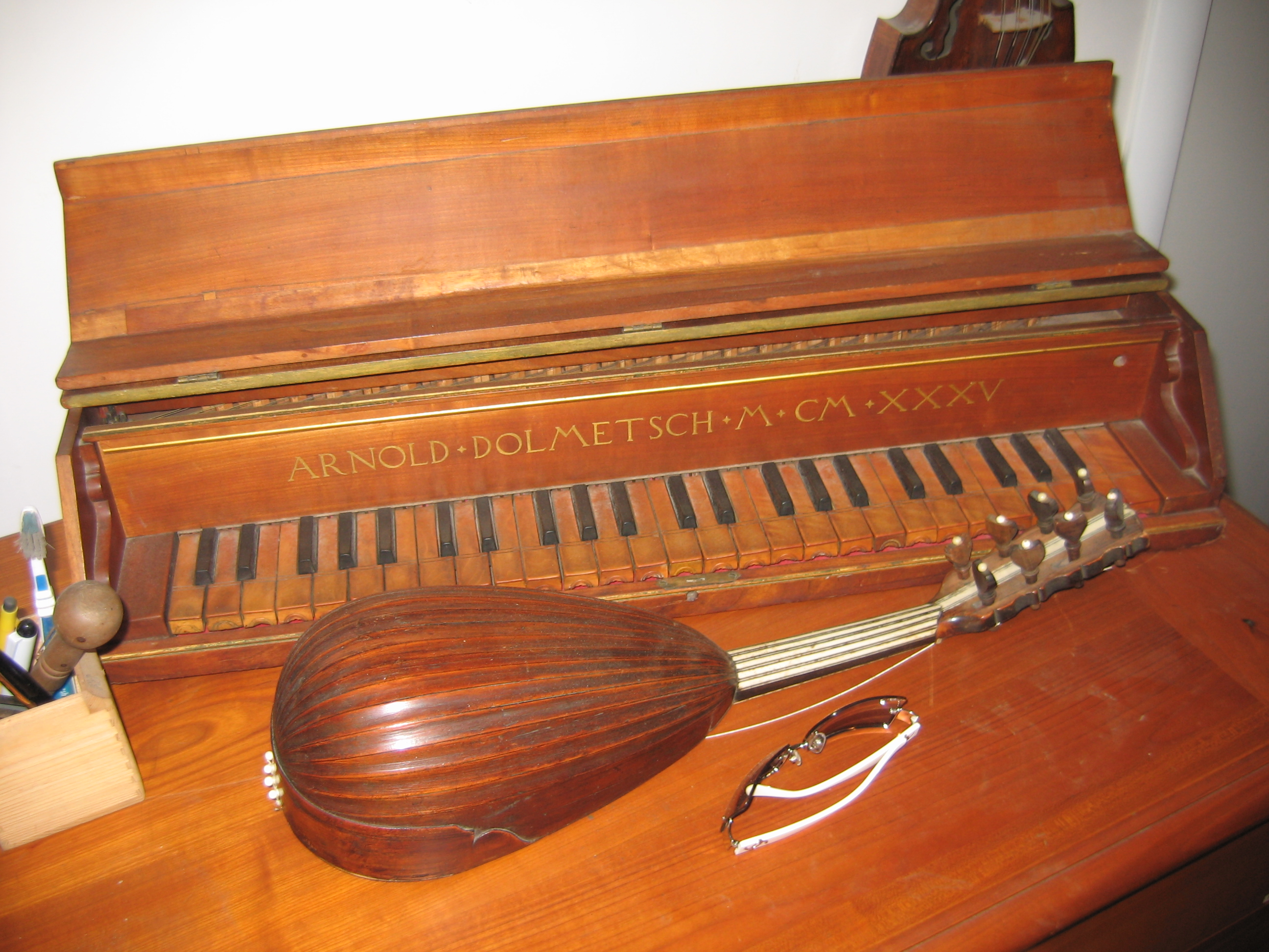 Pictures of musical instruments in the studio of master luthier Claude Lebet, Rome. The lute on the table is a mandolin, on which Claude Lebet learned to play.